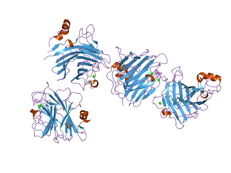 Cartoon representation of the molecular structure of protein registered with 1r1z code.